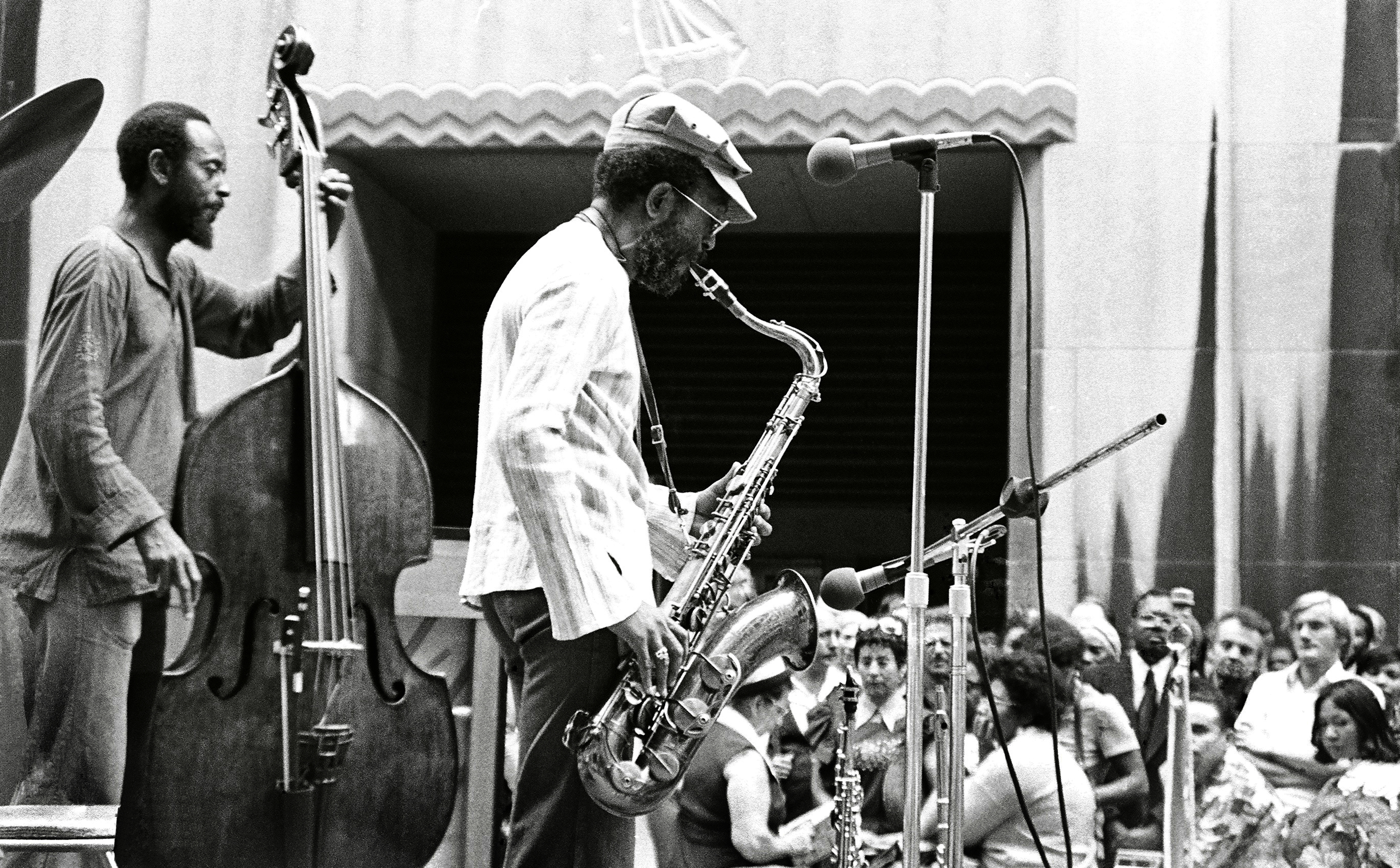 Percy Heath and Jimmy Heath June 1977